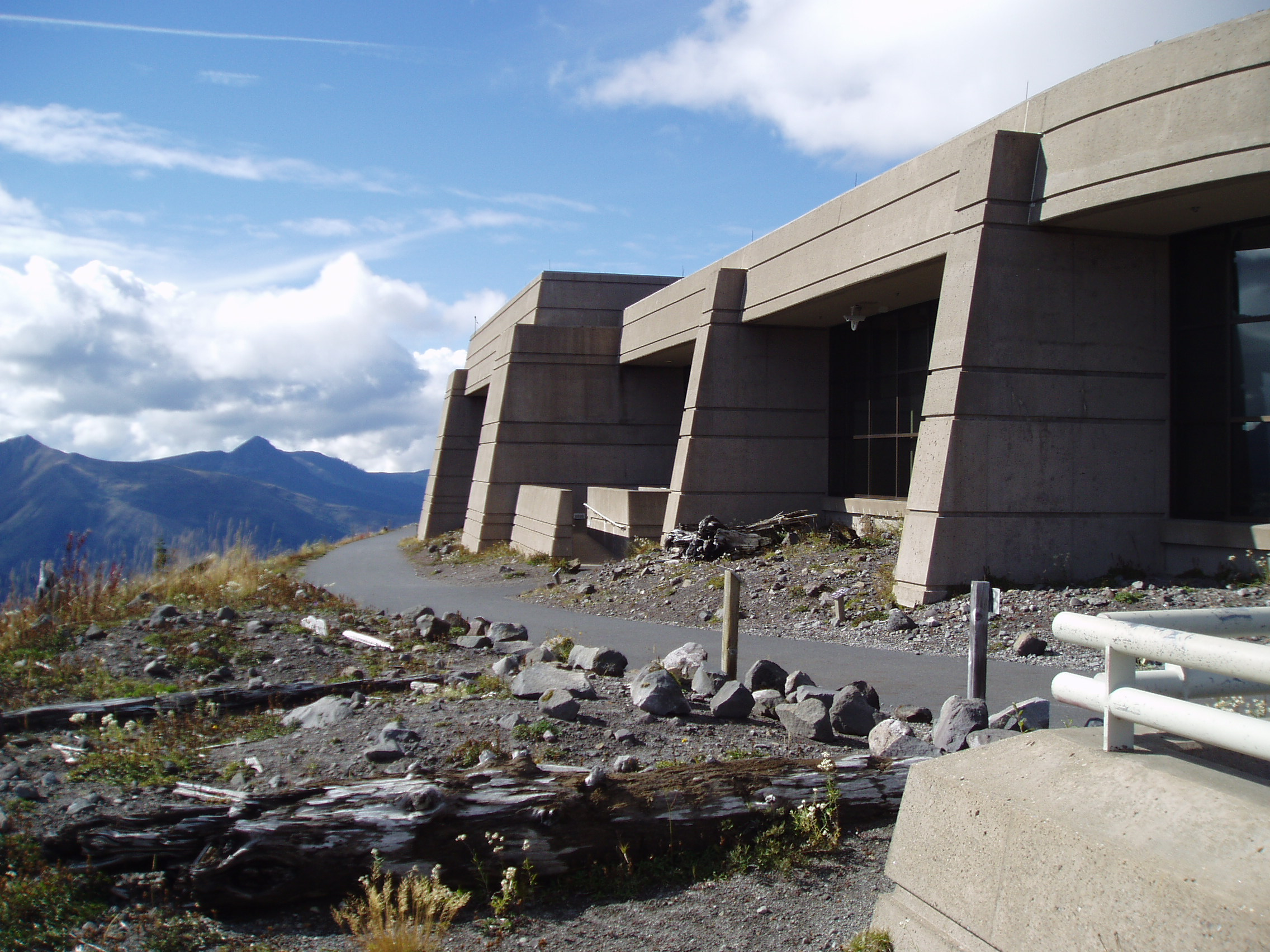 One of several images taken from the Johnston Ridge Observatory during the activity of Mount St. Helens in October 2004.